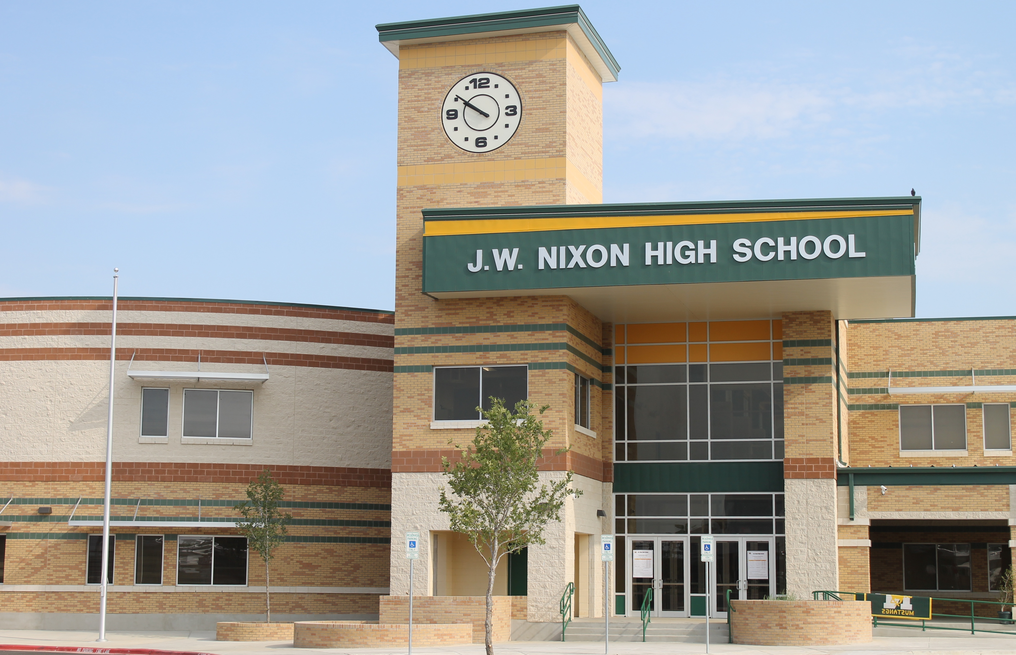 Renovated J. W. Nixon High School in Laredo, TX